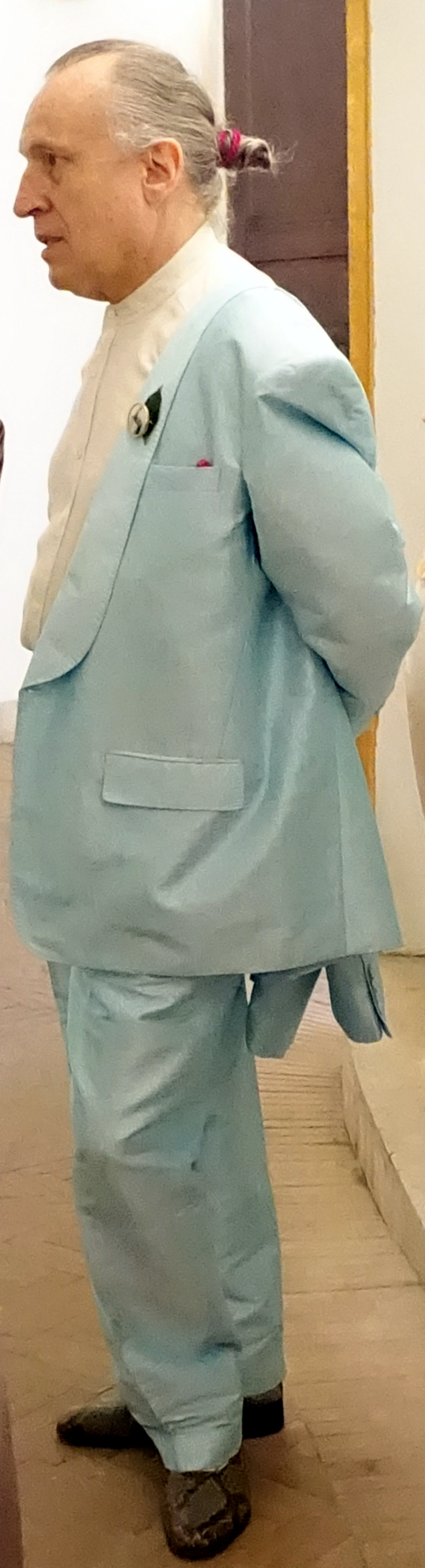 Photo of Luigi Ontani at the exhibition of his works at Accademia di San Luca, Rome, 5 June 2017